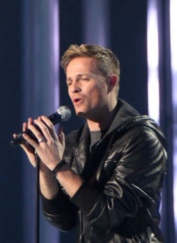 Nicky Byrne at The Nobel Peace Prize Concert 2009.